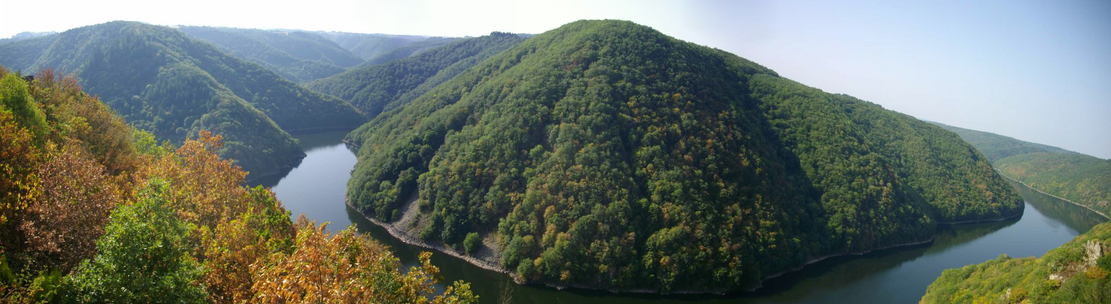 Dordogne river valley and confluent Dordogne river - Sumène river, seen from the "Gratte-Bruyère" site in Sérandon (Corrèze, France)